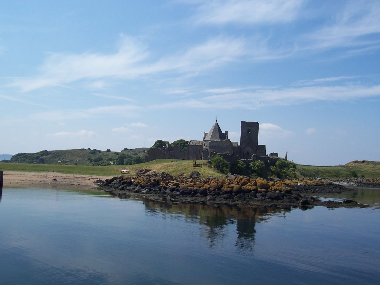 Inchcolm Abbey from the Incholm Ferry